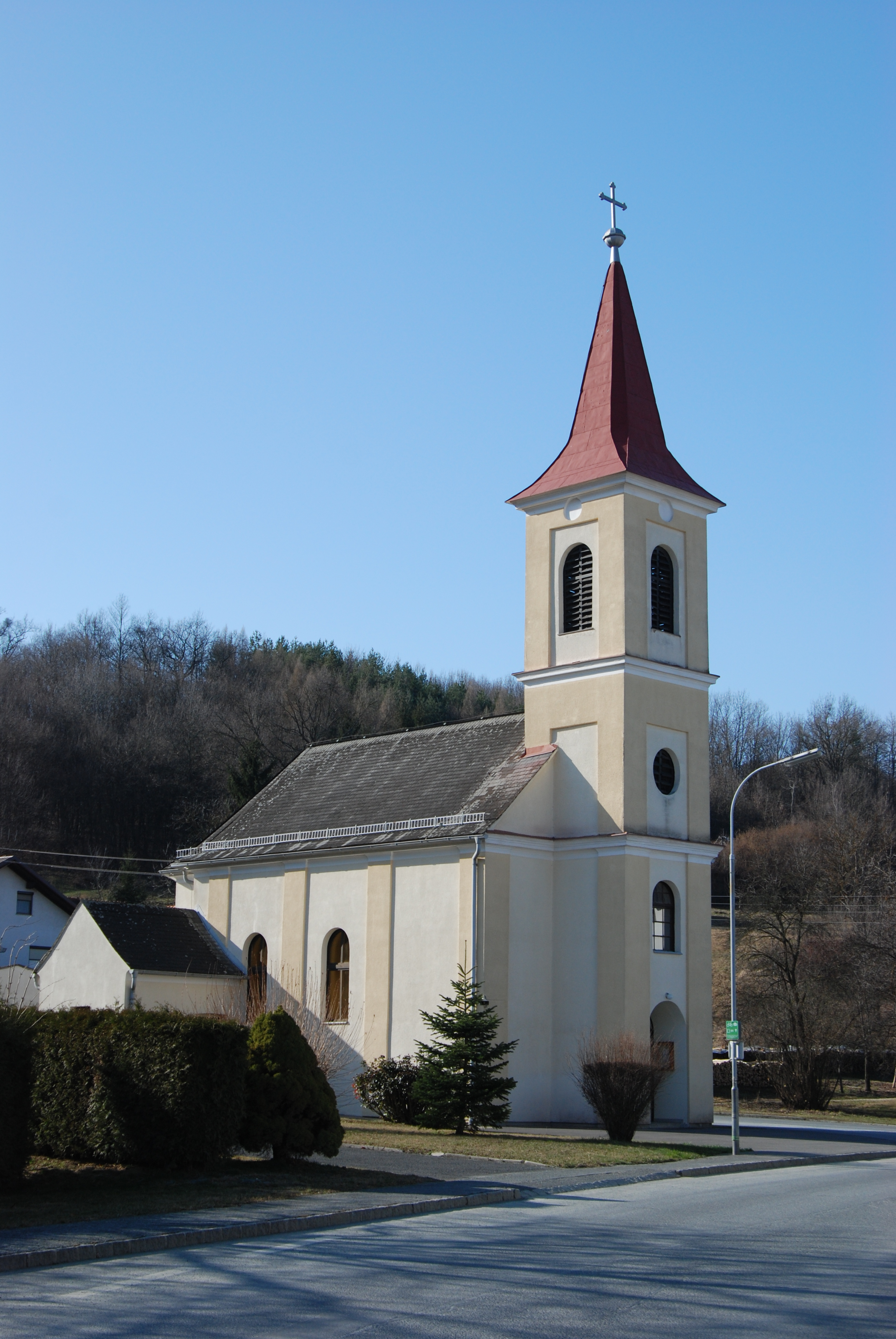 Kirche Deutsch Bieling